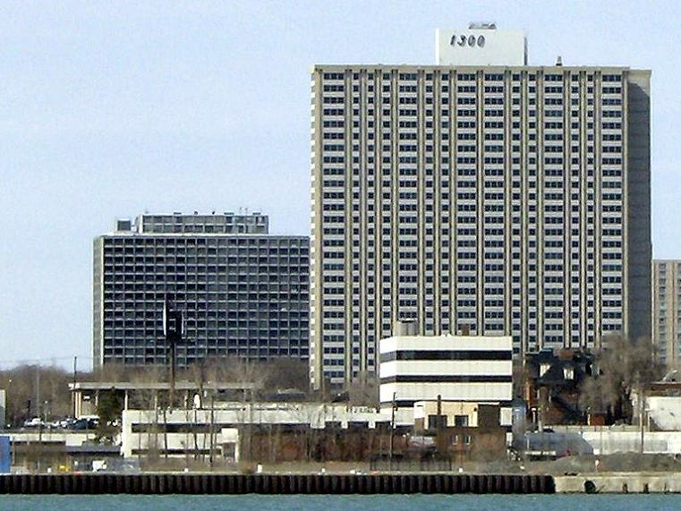 The Modernist Lafayette Pavillion Apartments — in Lafayette Park, Detroit, Michigan. The "Mies van der Rohe Residential District, Lafayette Park" is on the National Register of Historic Places in Detroit.